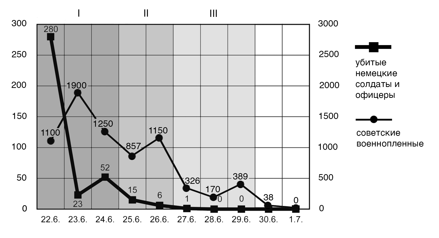 Development of German losses of men killed in action and Soviet losses of POWs in the battle for the Brest fortress in June 1941, based on primary sources as indicated in my publications. In the diagram about 52 German soldiers are missing. These died in the lazarets and the day they were wounded is unknown. In cases that day is known these are counted as losses of that day. On the basis of the known primary sources it was not always possible to establish the exact number of Soviet POWs for every day. For these reasons the diagram gives merely an orientation about the losses and, subsequently, about duration and intensity of the battle.